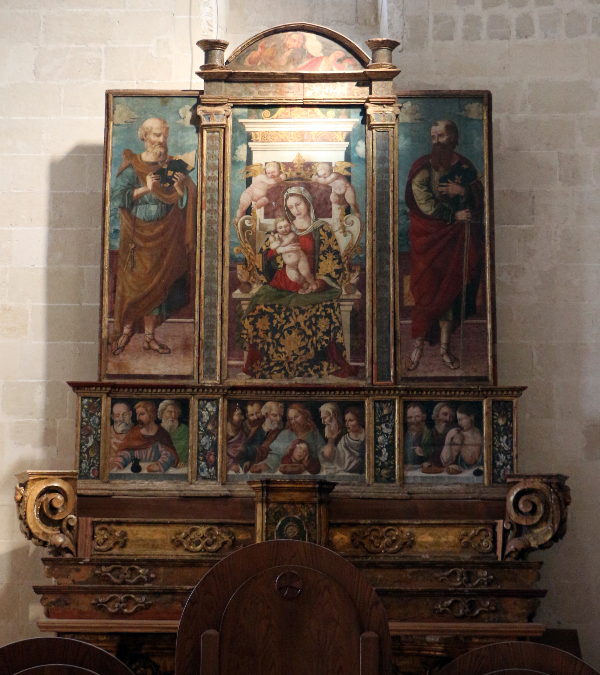 San Pietro Caveoso (Matera)